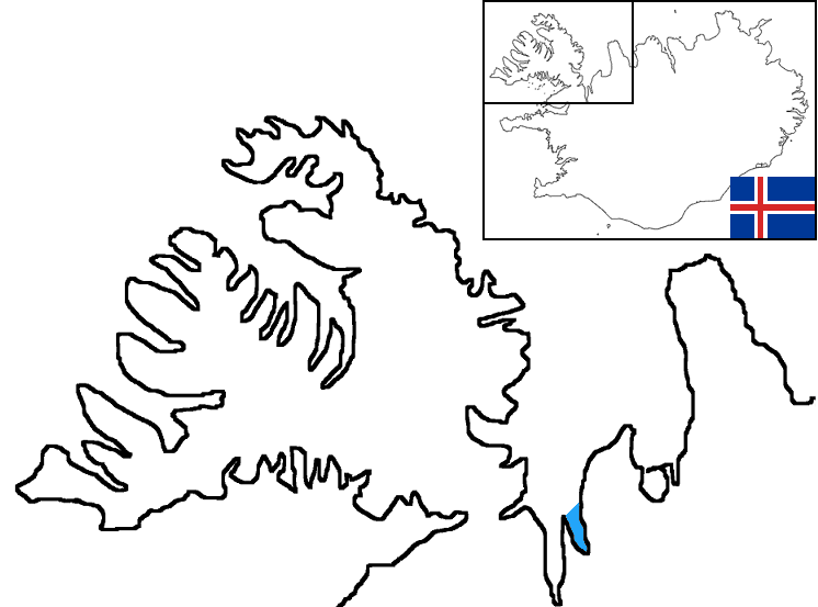 Location of Miðfjörður, Iceland